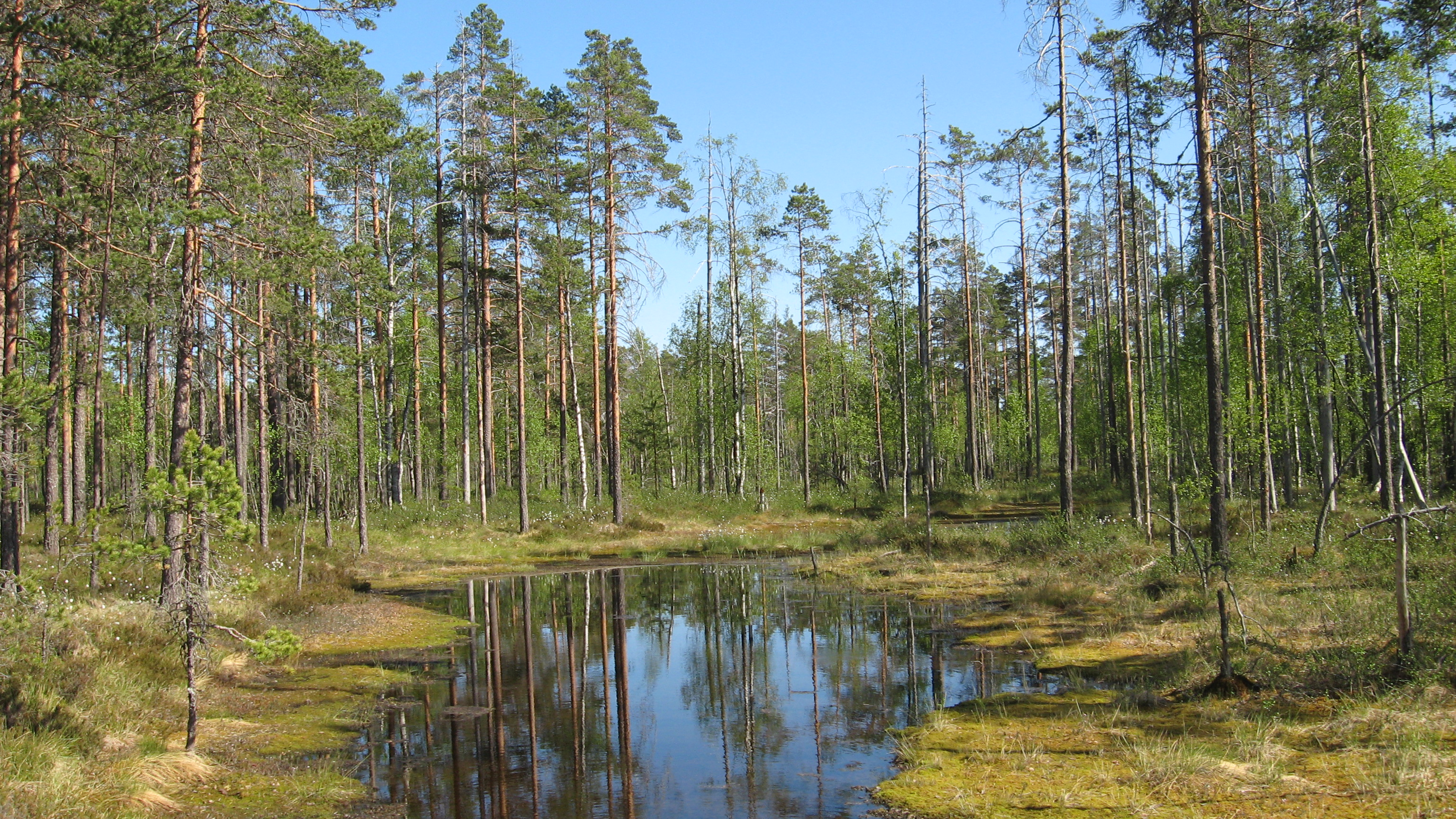 A little bog lake in Lauhanvuori National Park, Isojoki, Finland.